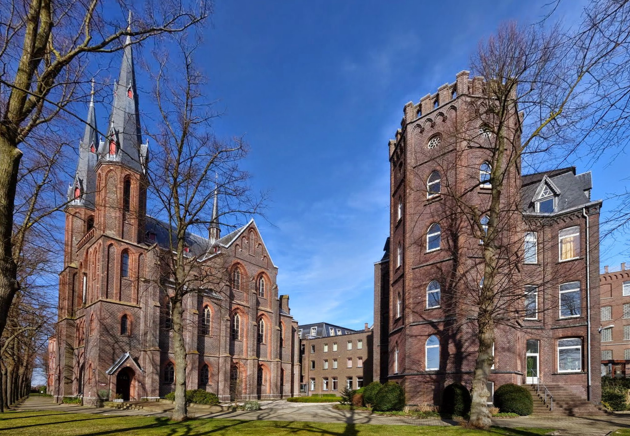 5935 Steyl, Netherlands